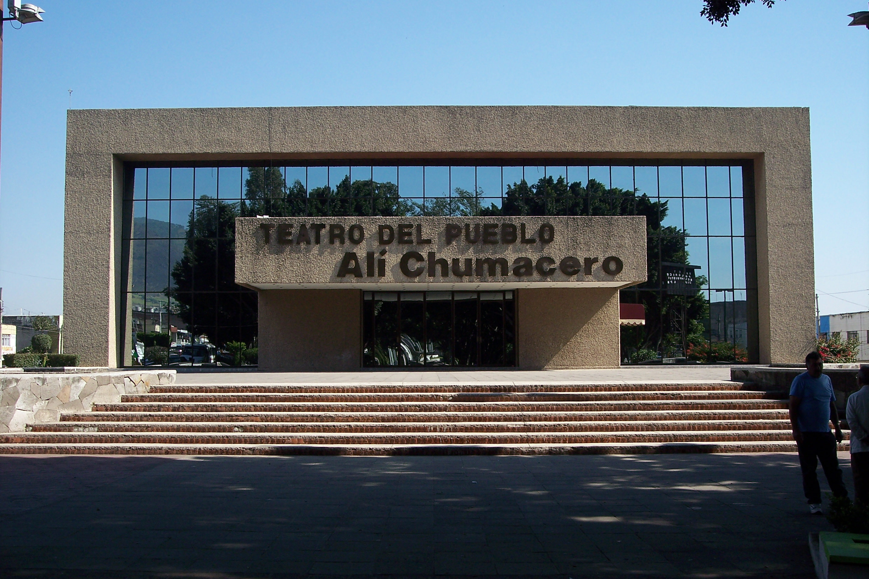 Photo of the "People's Theater Alí Chumacero" in Tepic, Nayarit, Mexico.